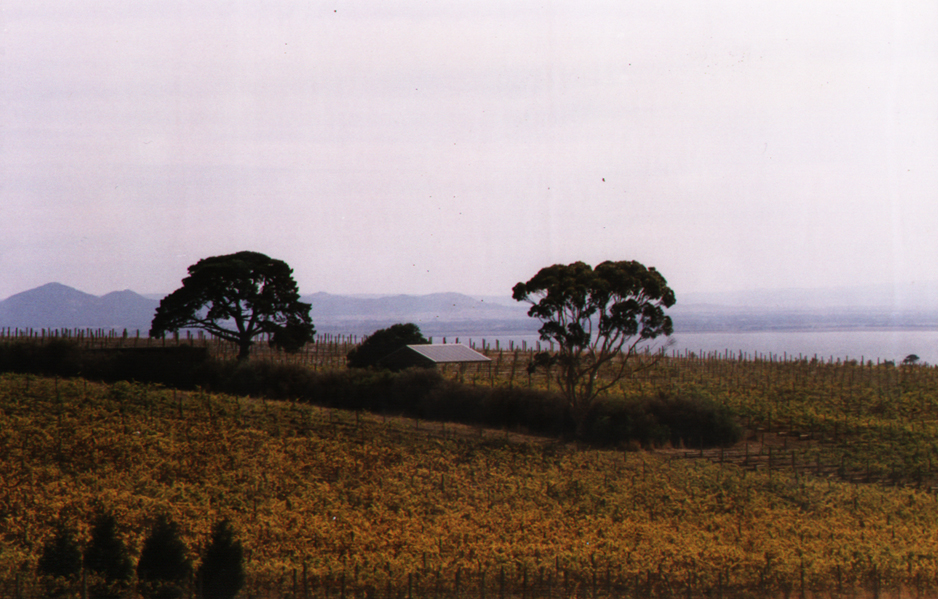 Vineyards in the Bellarine Hills above Portarlington, Victoria.